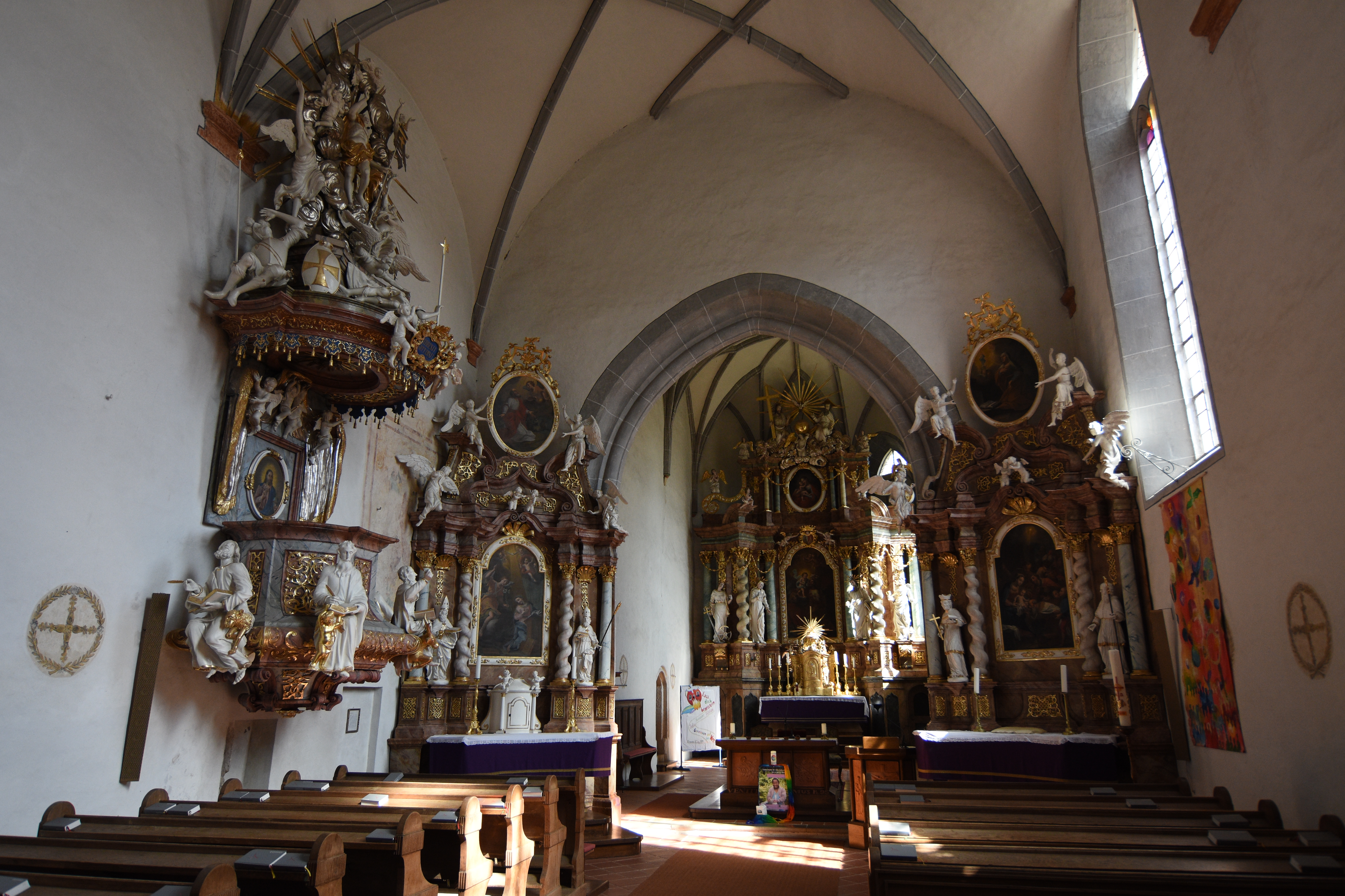 Church Josefskirche (Stadtschlaining) - Interior